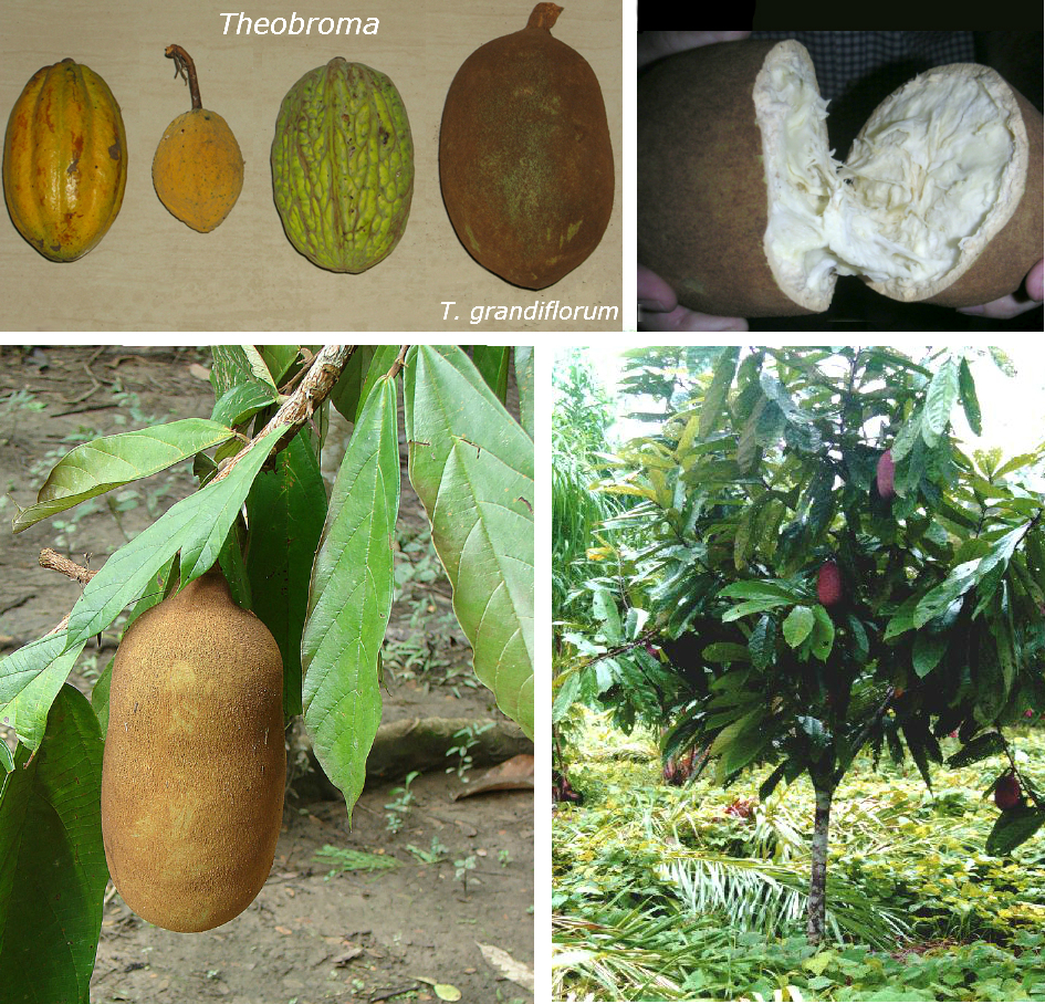 Upper left photo: Frutis from 4 Theobroma species, from left to right: T. cacao, T. speciosum, T. bicolor, and the amphisarca of T. grandiflorum. The rest of the photos are from T. grandiflorum.